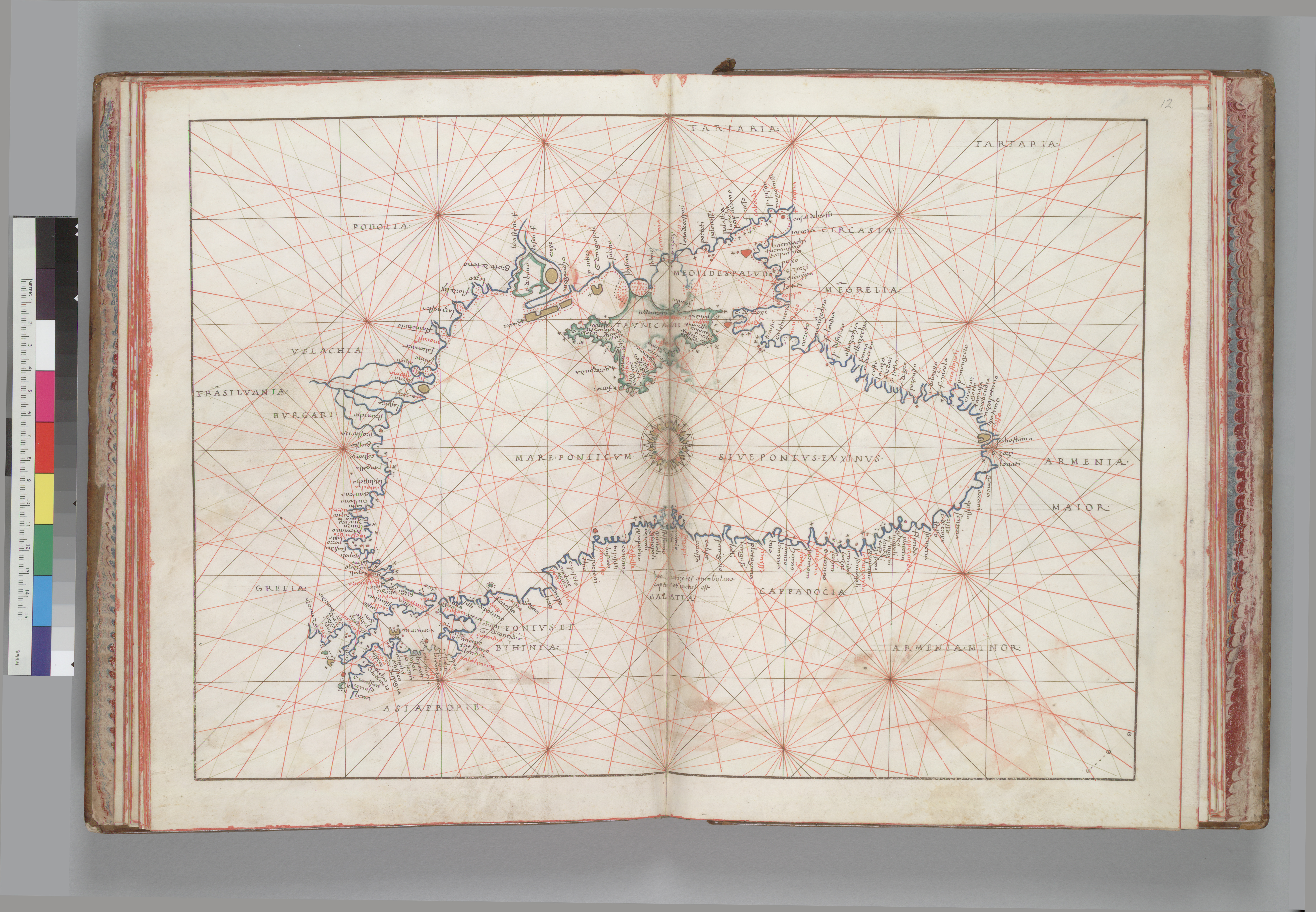 Black Sea. HM 10. BATTISTA AGNESE, PORTOLAN ATLAS Italy, ca. 1550 Call Number: HM 10 Folio: ff. 11v-12 Description: Black Sea.